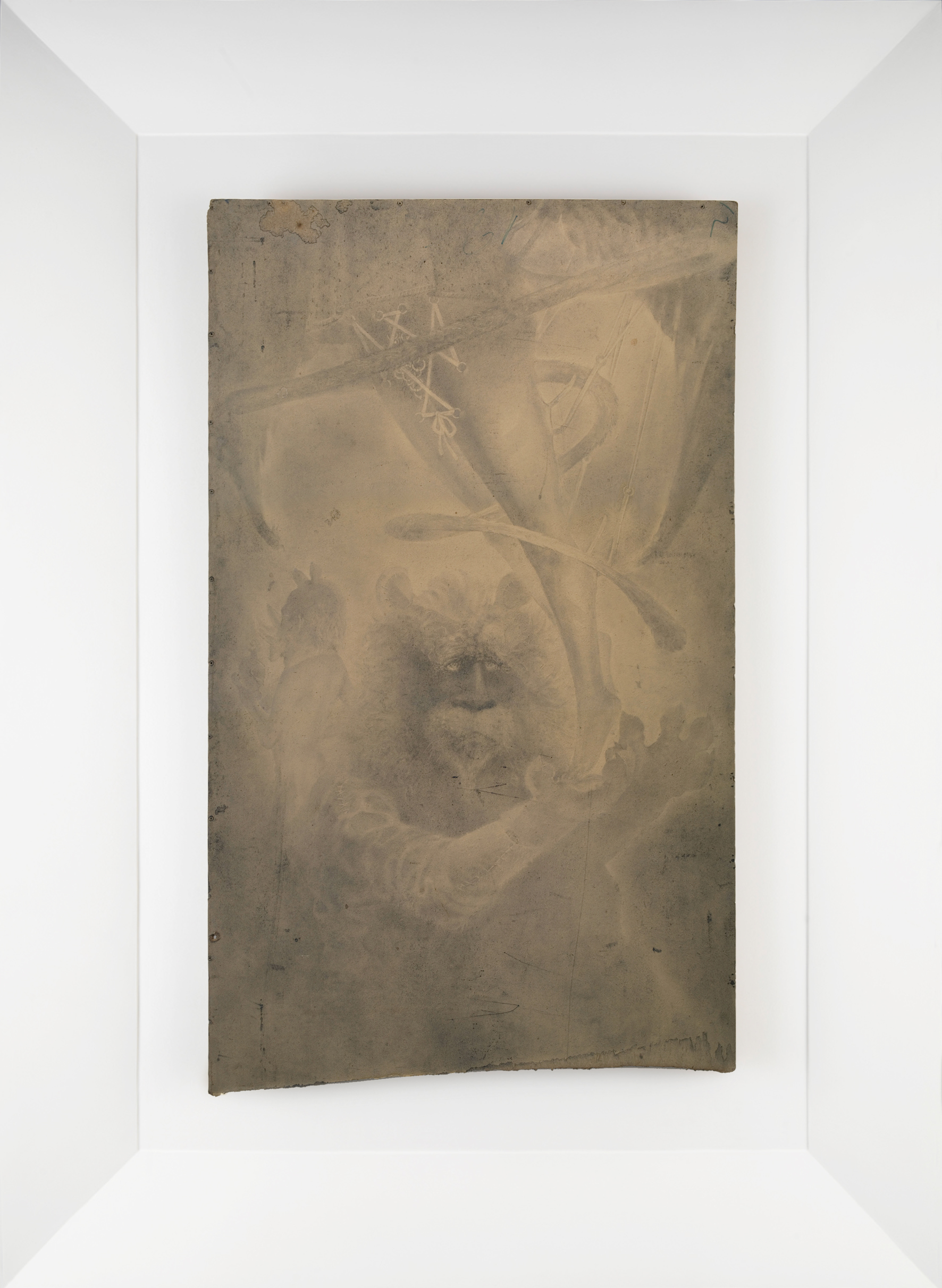 A work by Italian contemporary artist Enrico Corte from the "Anthrocon" series, 2007.